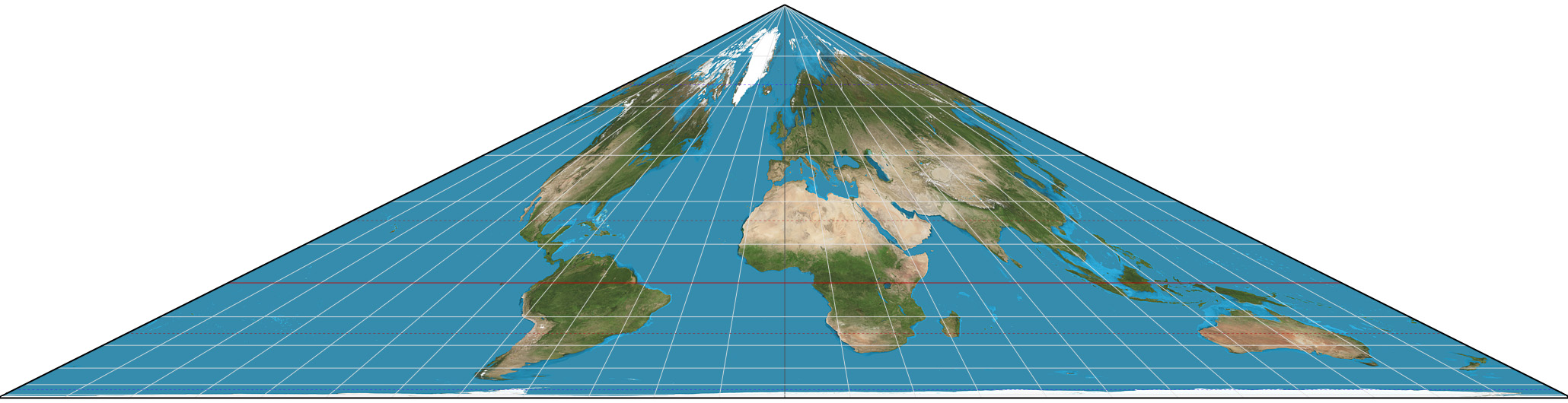 The world on Collignon projection. 15° graticule. Imagery is a derivative of NASA’s Blue Marble summer month composite with oceans lightened to enhance legibility and contrast. Image created with the Geocart map projection software.